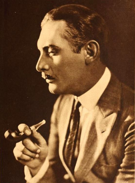 American actor Lew Cody on page 21 of the march 1920 Motion Picture Magazine. The caption in the magazine lists him as "Lewis J. Cody," his original credit in films.